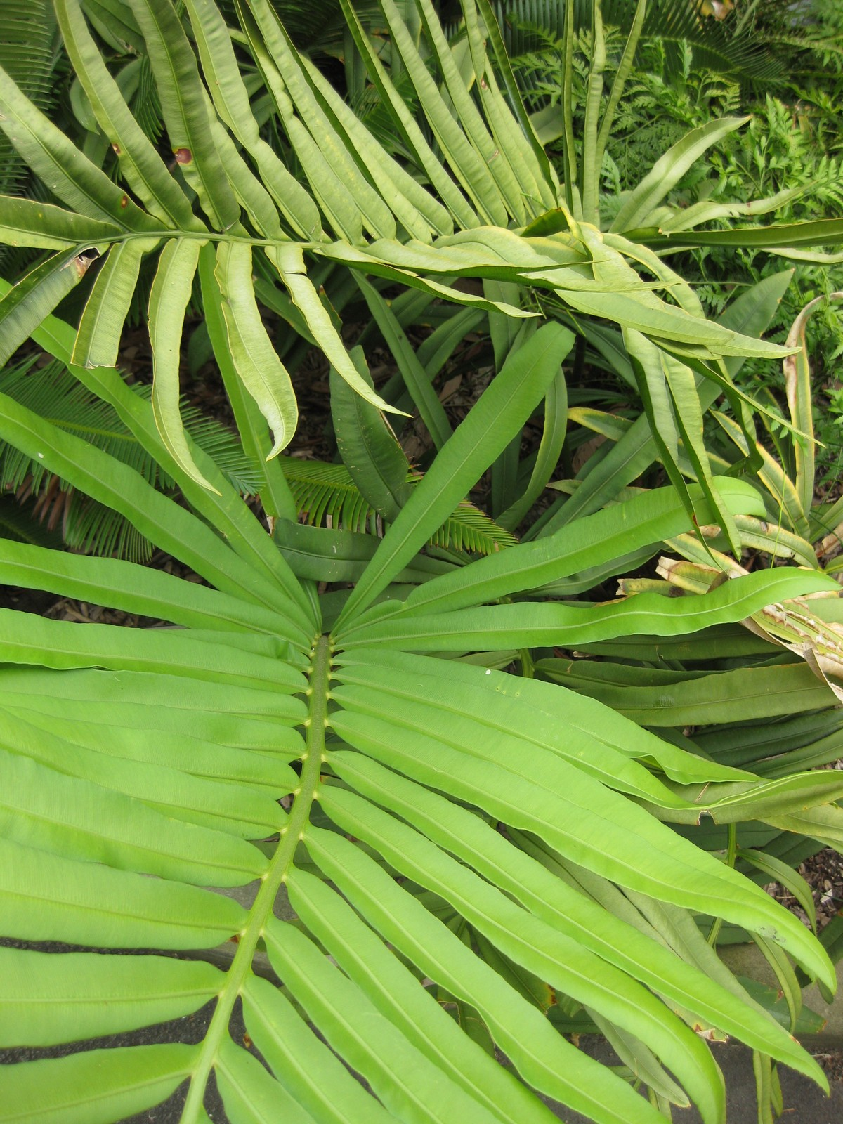 Photographed at the Royal Botanic Gardens Sydney (Australia) in January